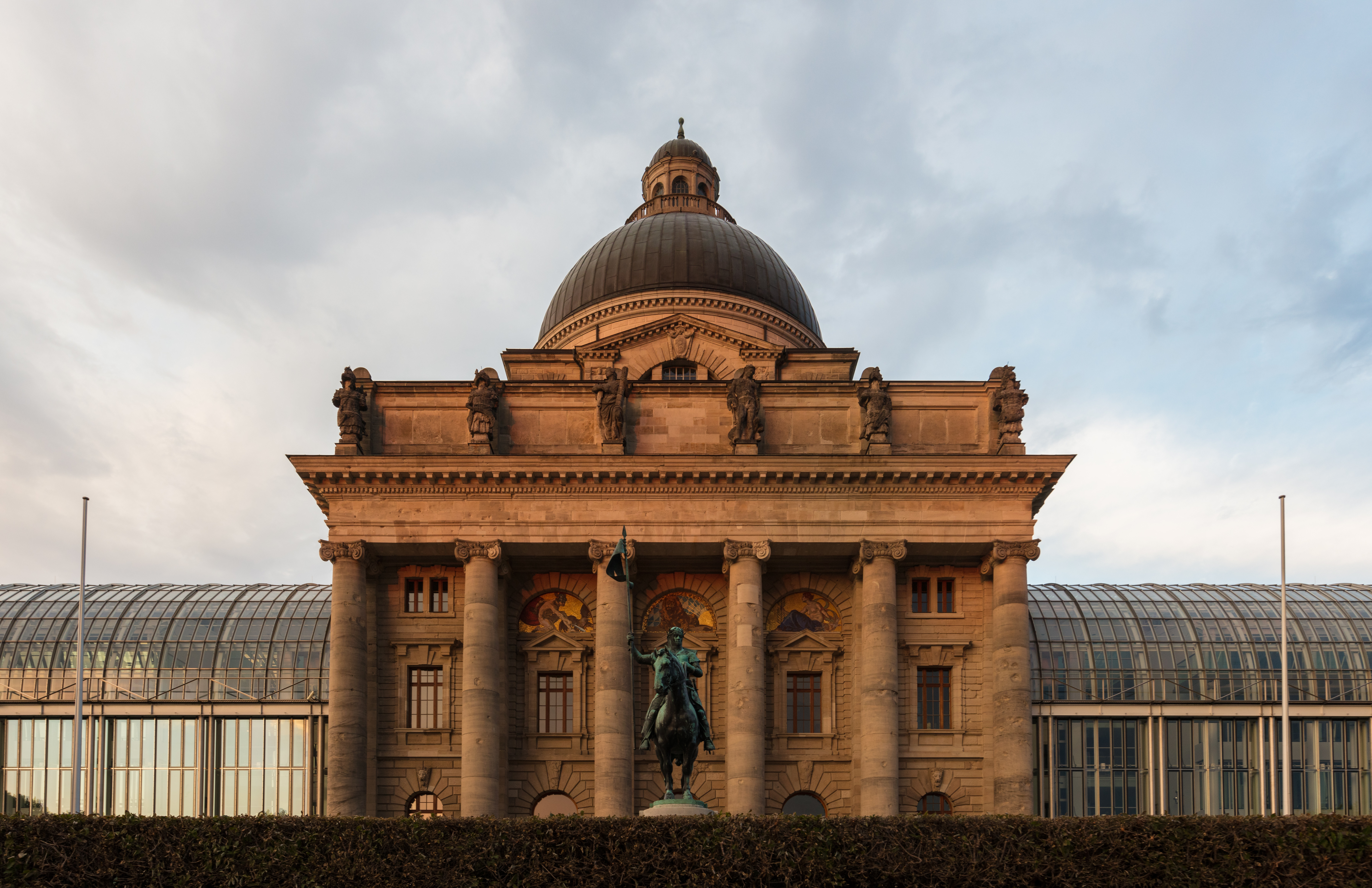 Bavarian State Chancellery, Munich, GermanyThis is a photograph of an architectural monument.